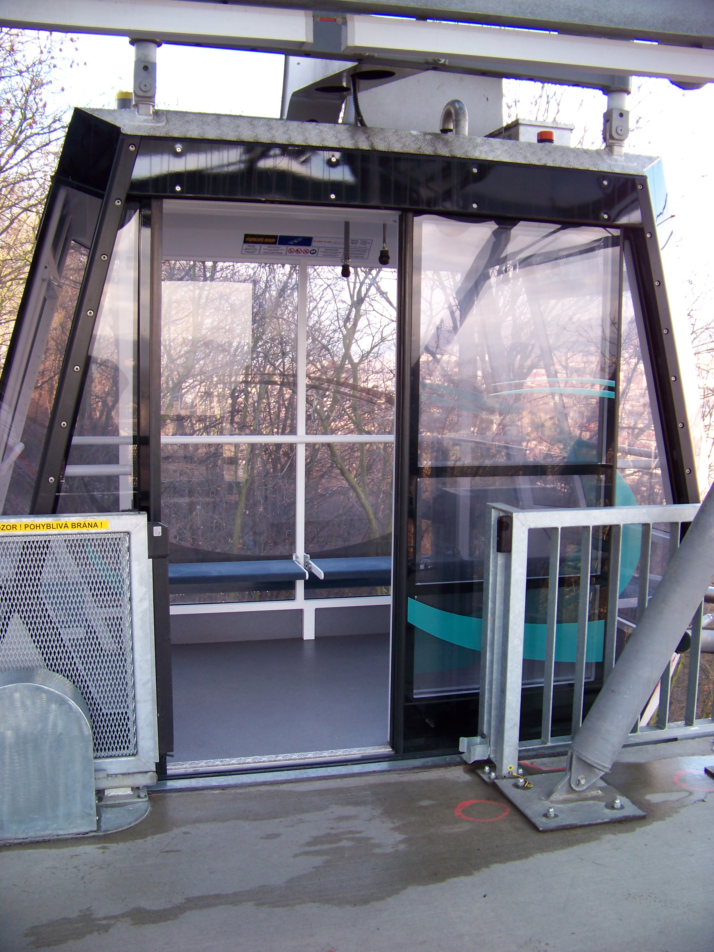 Ústí nad Labem, the Czech Republic. Větruše Cableway, a cab at Větruše station. - OpenStreetMap(Info)